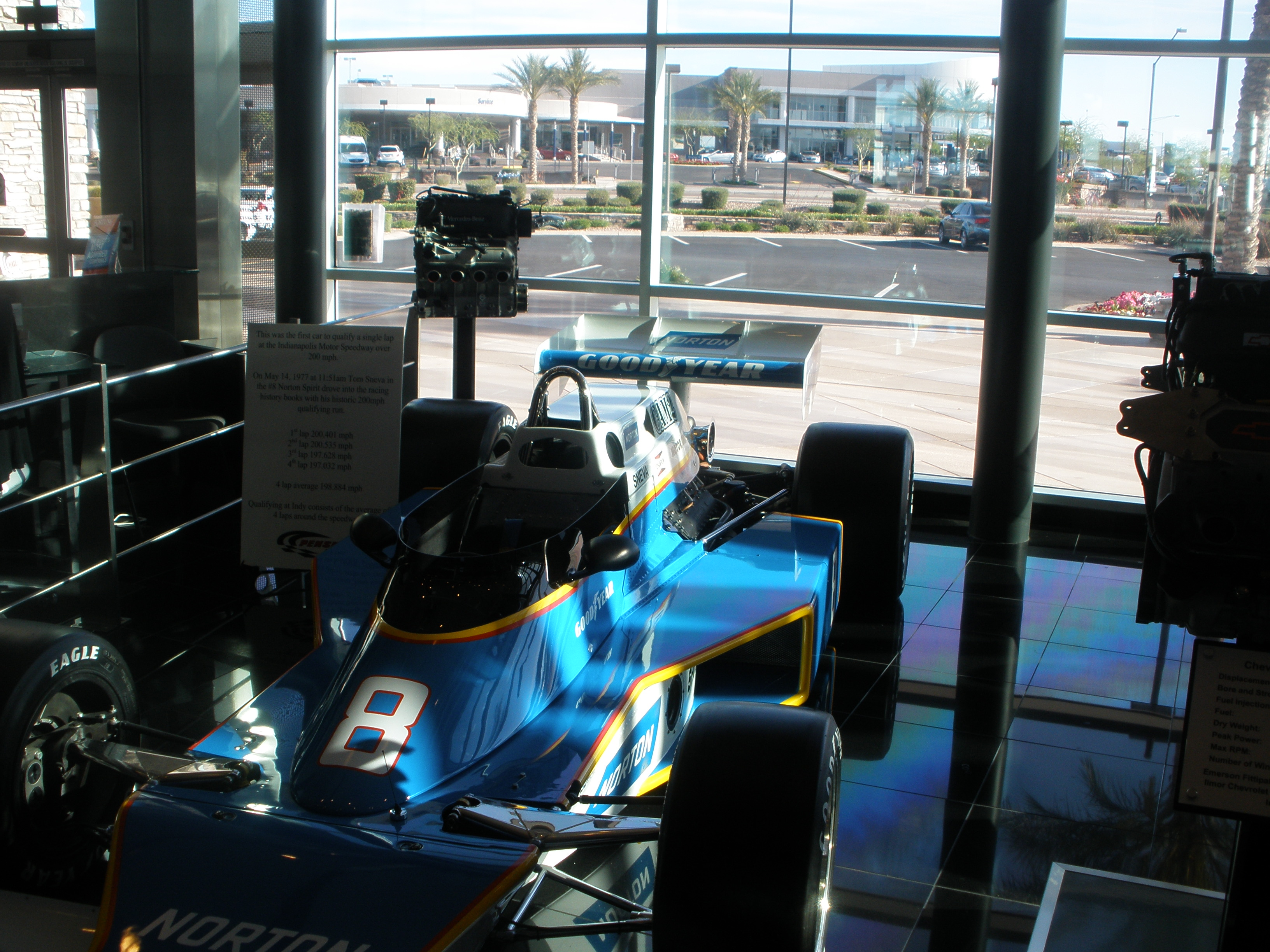 Car driven by Tom Sneva in the 1977 Indianapolis 500. The same car in which he set the track record at the Indianapolis Motor Speedway -- the first driver to complete a lap over 200 mph at the circuit.